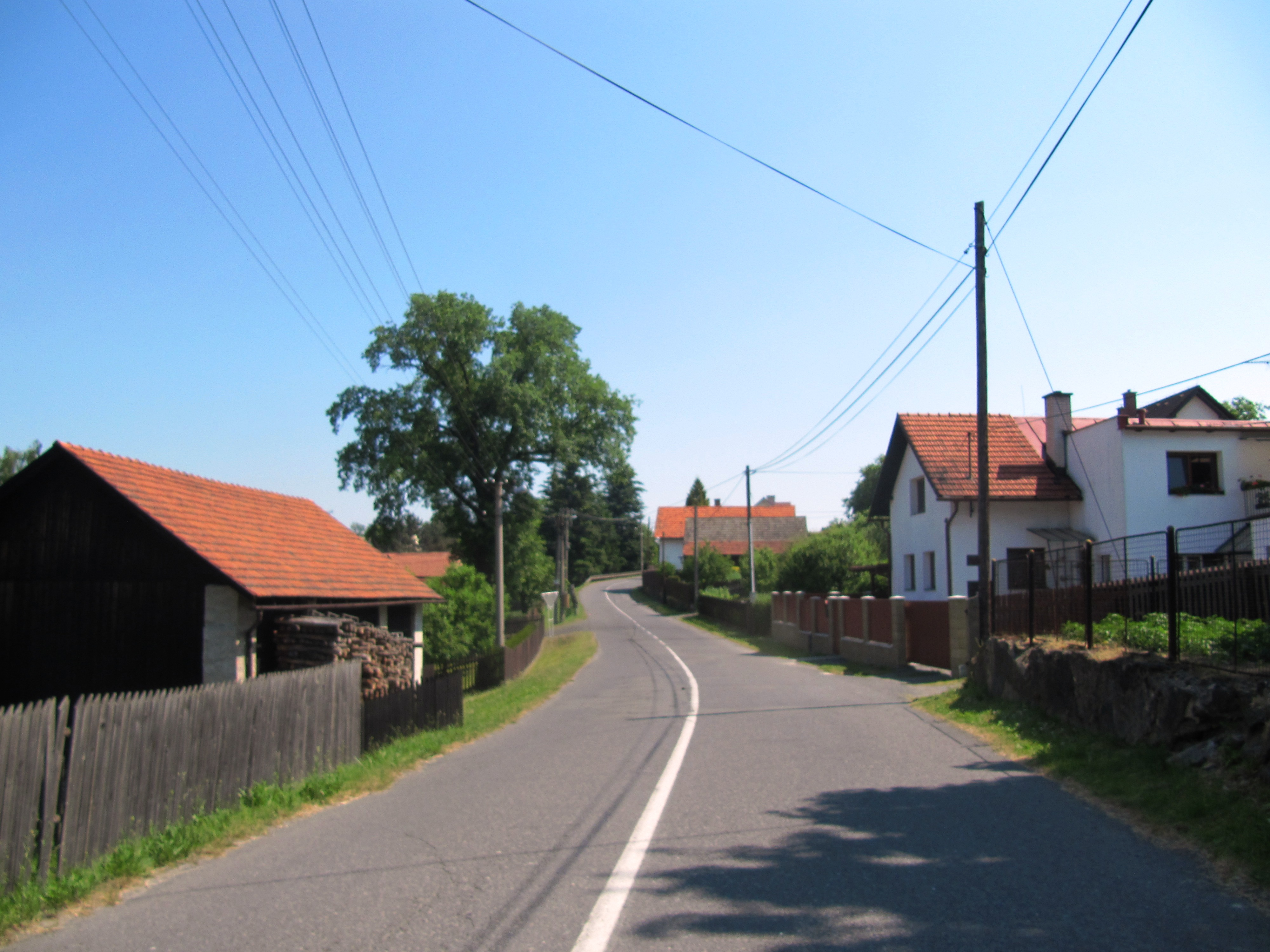 Březová, Opava District, Czech Republic, part Leskovec.